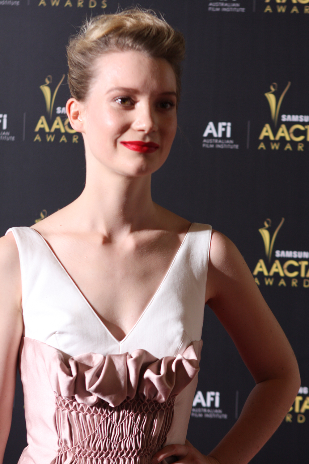 Mia Wasikowska at the AACTA Awards 2012 in Sydney, Australia